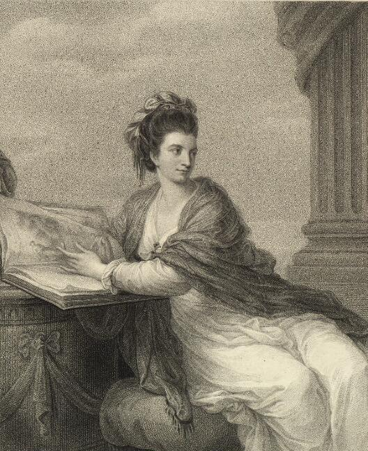 A portrait from the Welsh Portrait Collection at the National Library of Wales. Depicted person: Margaret Bingham – British painter and writer